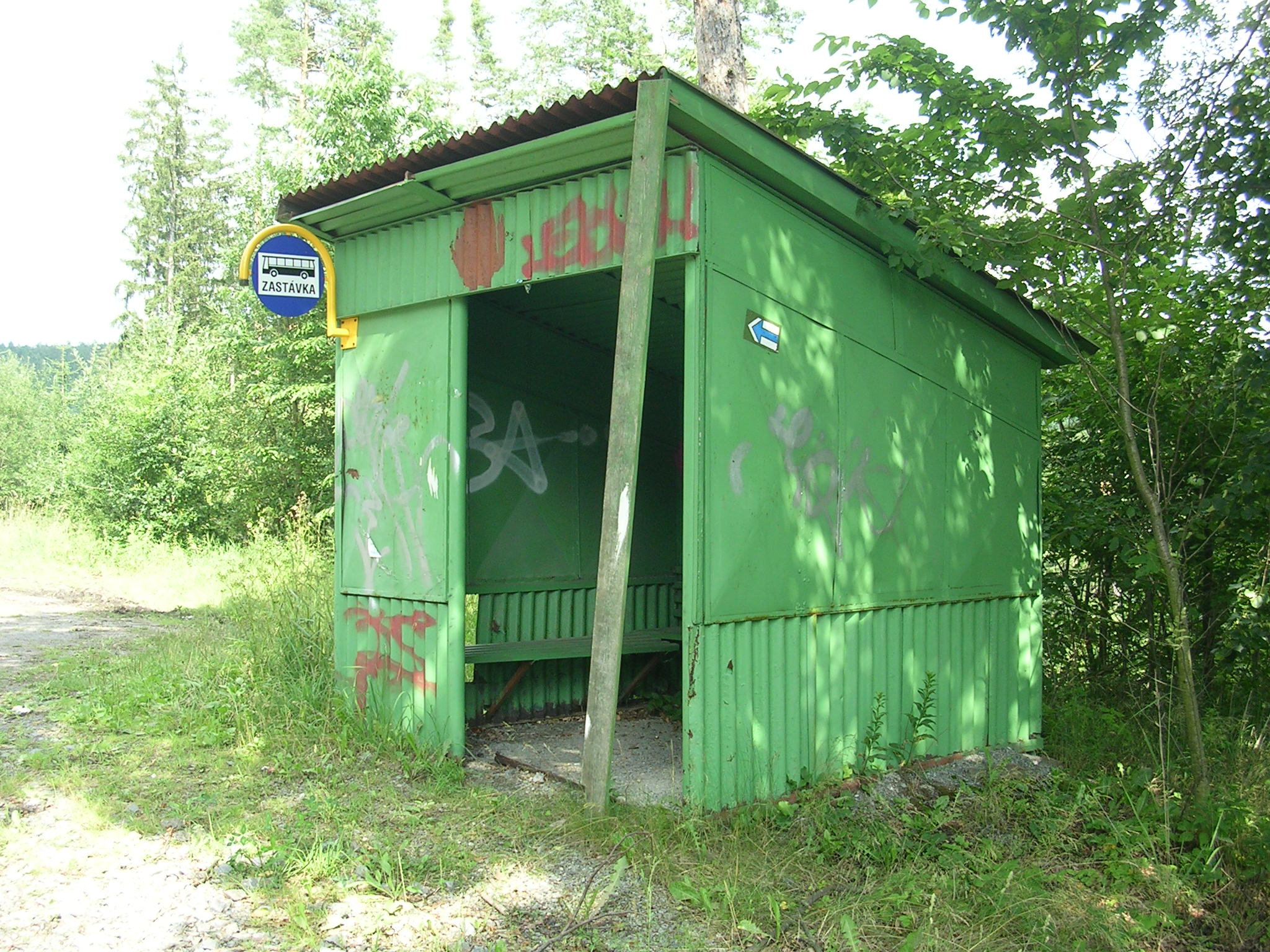 Svatý Jan, Příbram District, Central Bohemian Region, the Czech Republic.